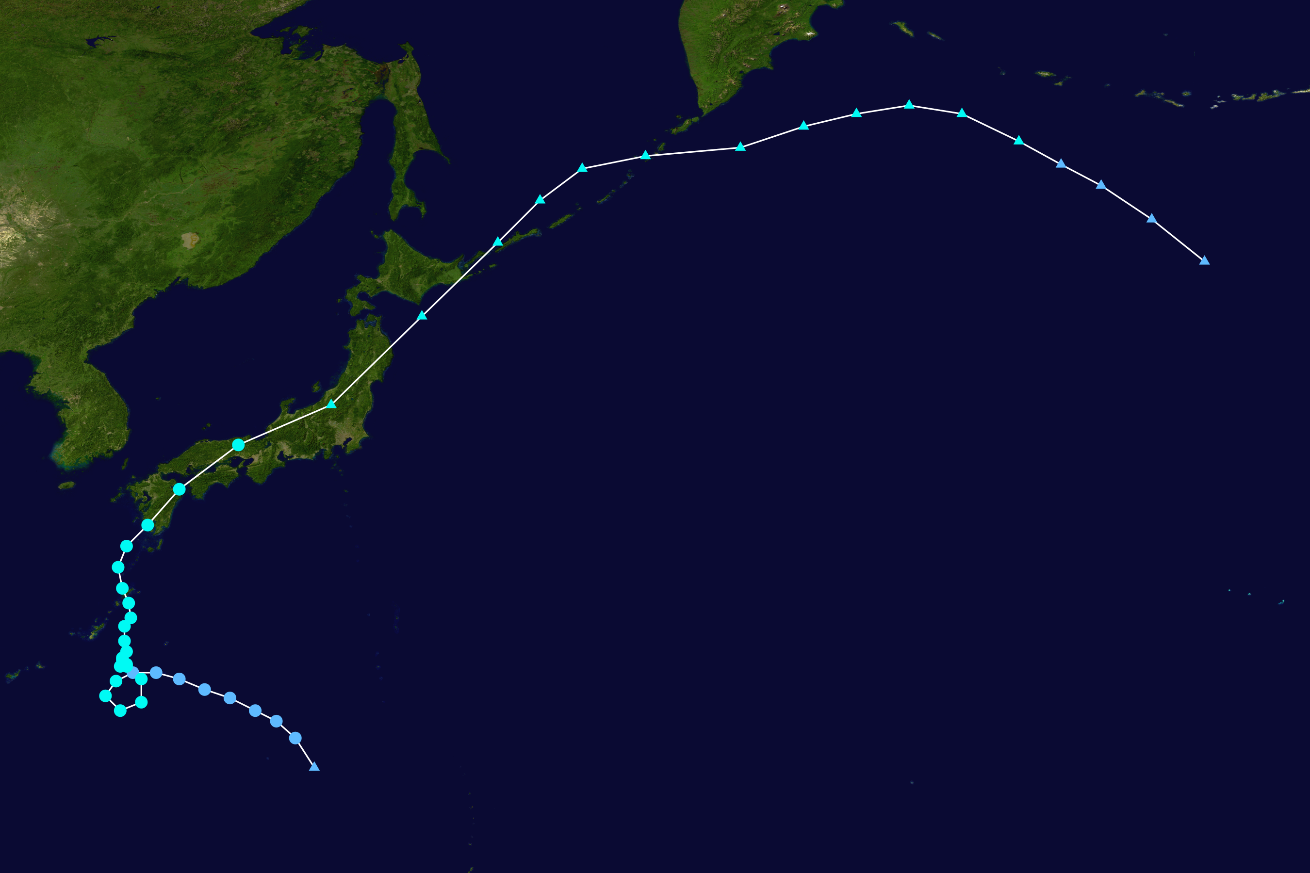 Track map of Tropical Storm Trix of the 1968 Pacific typhoon season. The points show the location of the storm at 6-hour intervals. The colour represents the storm's maximum sustained wind speeds as classified in the Saffir–Simpson hurricane wind scale (see below), and the shape of the data points represent the nature of the storm, according to the legend below. Saffir–Simpson hurricane wind scale Tropical depression≤38 mph≤62 km/h Category 3111–129 mph178–208 km/h Tropical storm39–73 mph63–118 km/h Category 4130–156 mph209–251 km/h Category 174–95 mph119–153 km/h Category 5≥157 mph≥252 km/h Category 296–110 mph154–177 km/h Unknown Storm typeTropical cycloneSubtropical cycloneExtratropical cyclone / Remnant low / Tropical disturbance